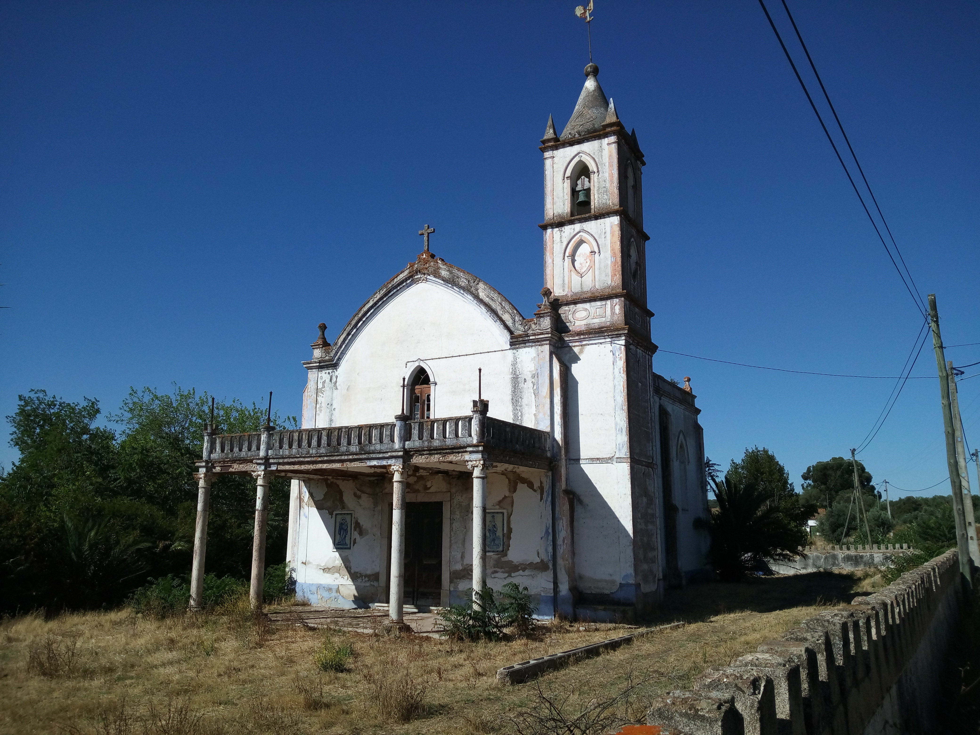 Church of the Palace of the Count of Azarujinha in Azaruja, Évora, Portugal.